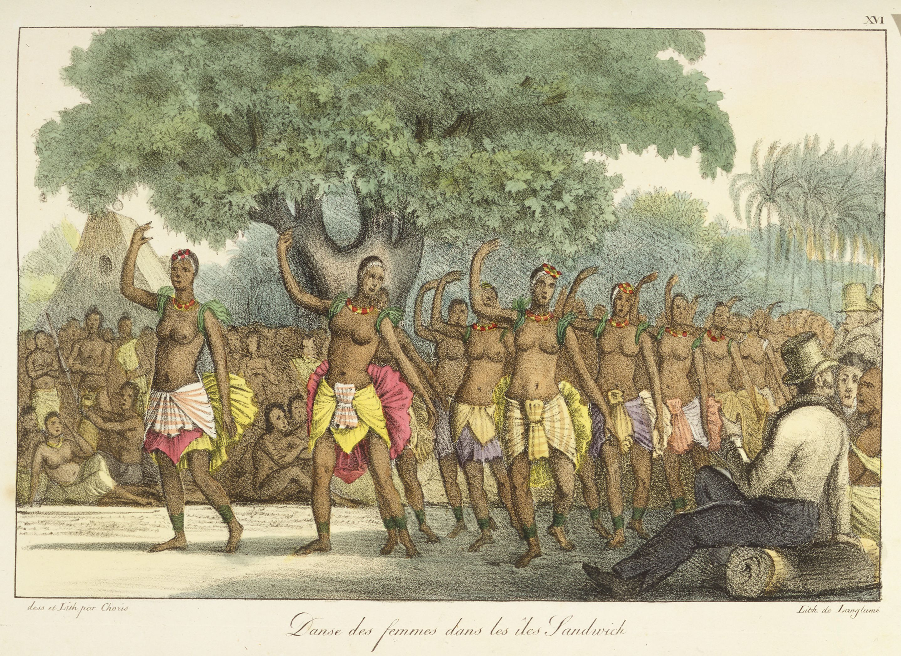 Choris, Louis, 1795-1828 :Danse des femmes dans les iles Sandwich. Dess. et lith. par Choris. Lith. de Langlume. [Paris, 1822]. Reference Number: PUBL-0072-16. A group of Hawaiian women dancing, surrounded by a ring of spectators. Three of the spectators are European men in top hats. Coconut palms, another large tree and the side of a dwelling are visible in the background. The dancers are wearing skirts and anklets, leis and flowers in their hair.